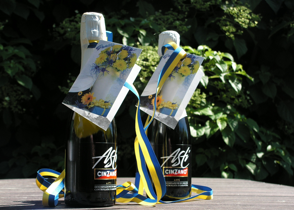 Bottle of Cinzano asti spumante